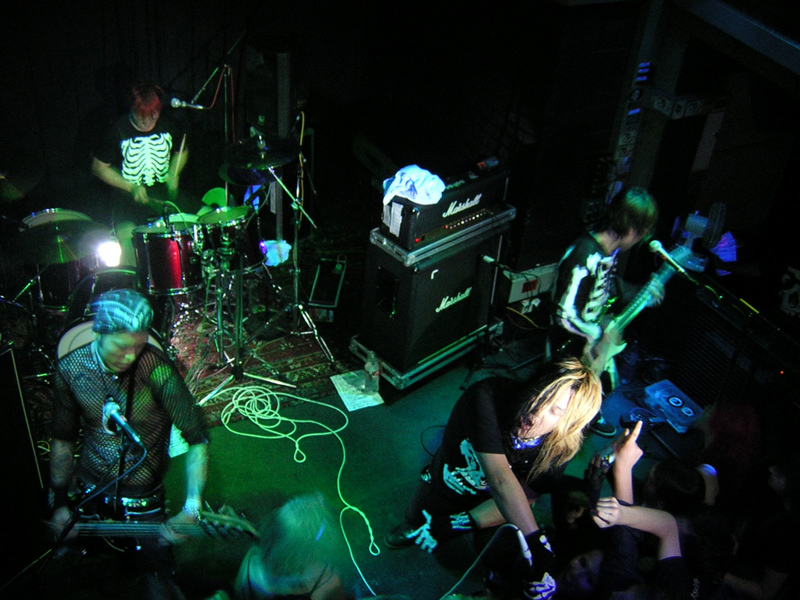 Taken in Vienna during the band's concert in 2005. So it falls into the "Photographs or videos you have created of people that are either public figures or are taken at public events" category.